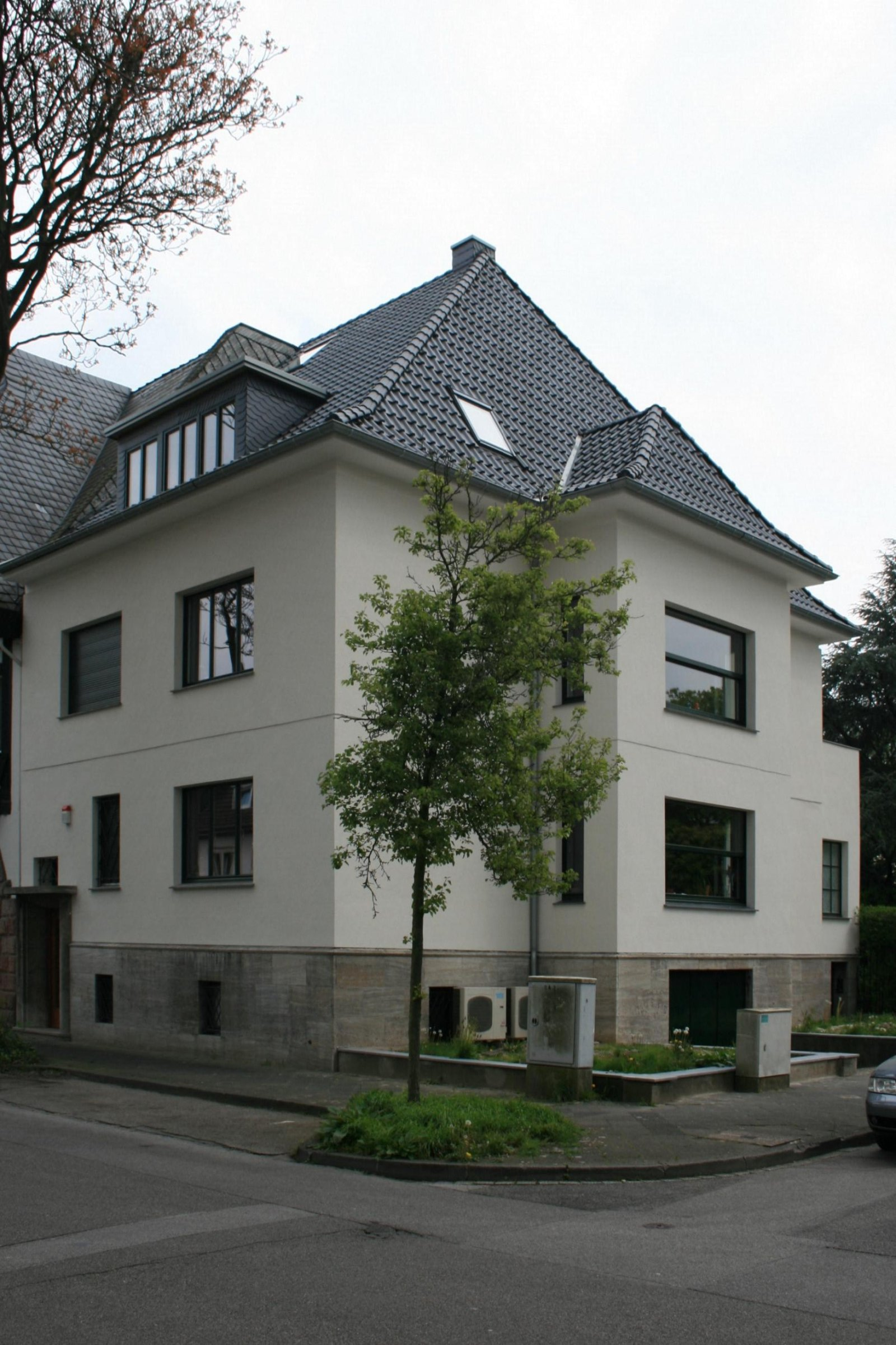 Cultural heritage monument No. R 090 in Mönchengladbach